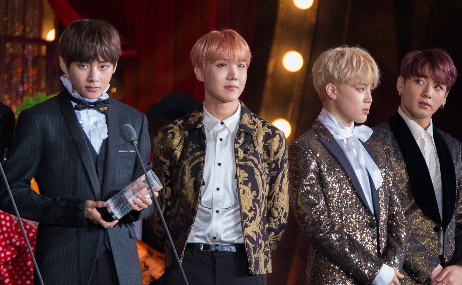 BTS on Melon Music Awards 2016